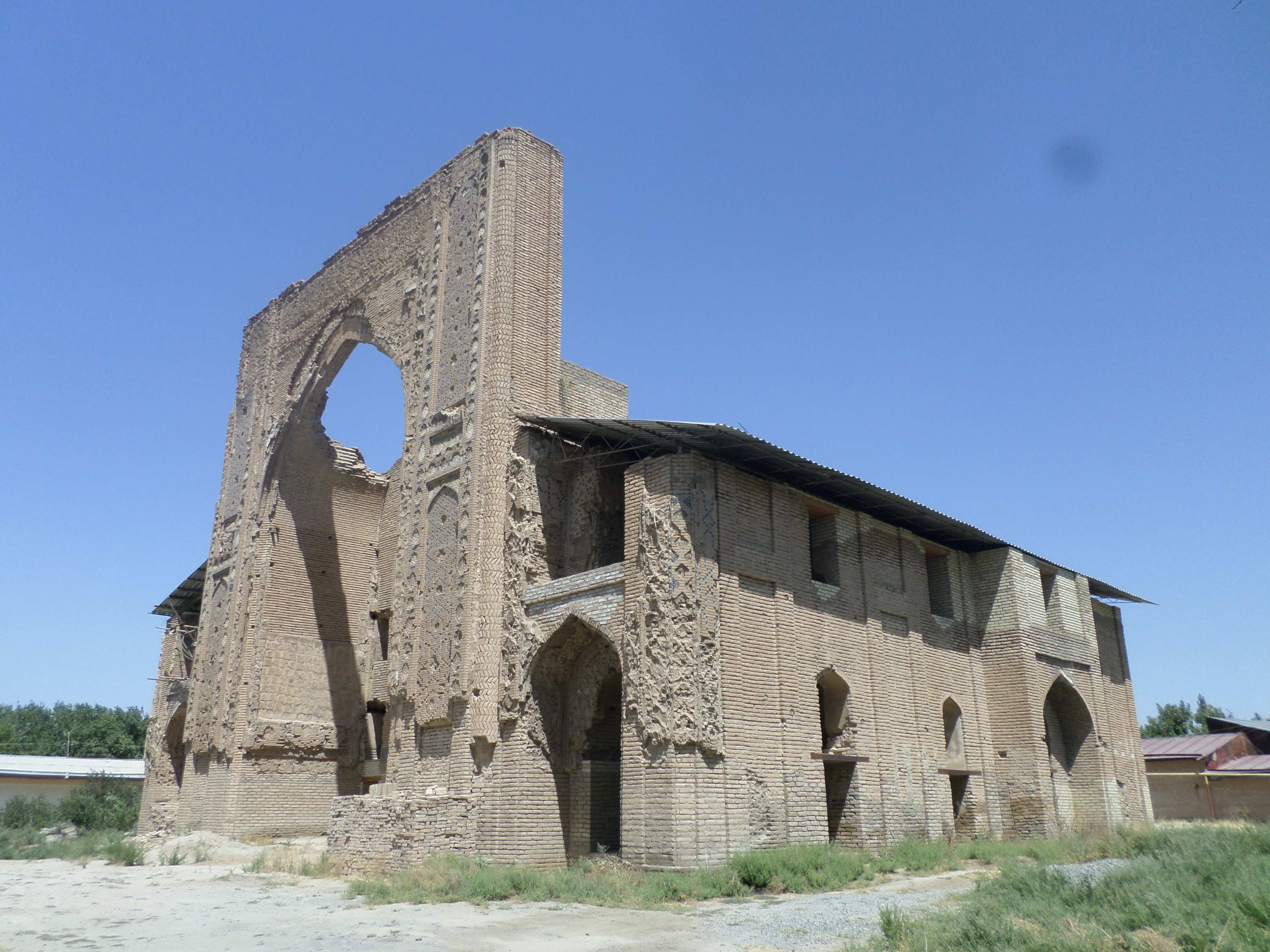 Mausoleum Ishrathona